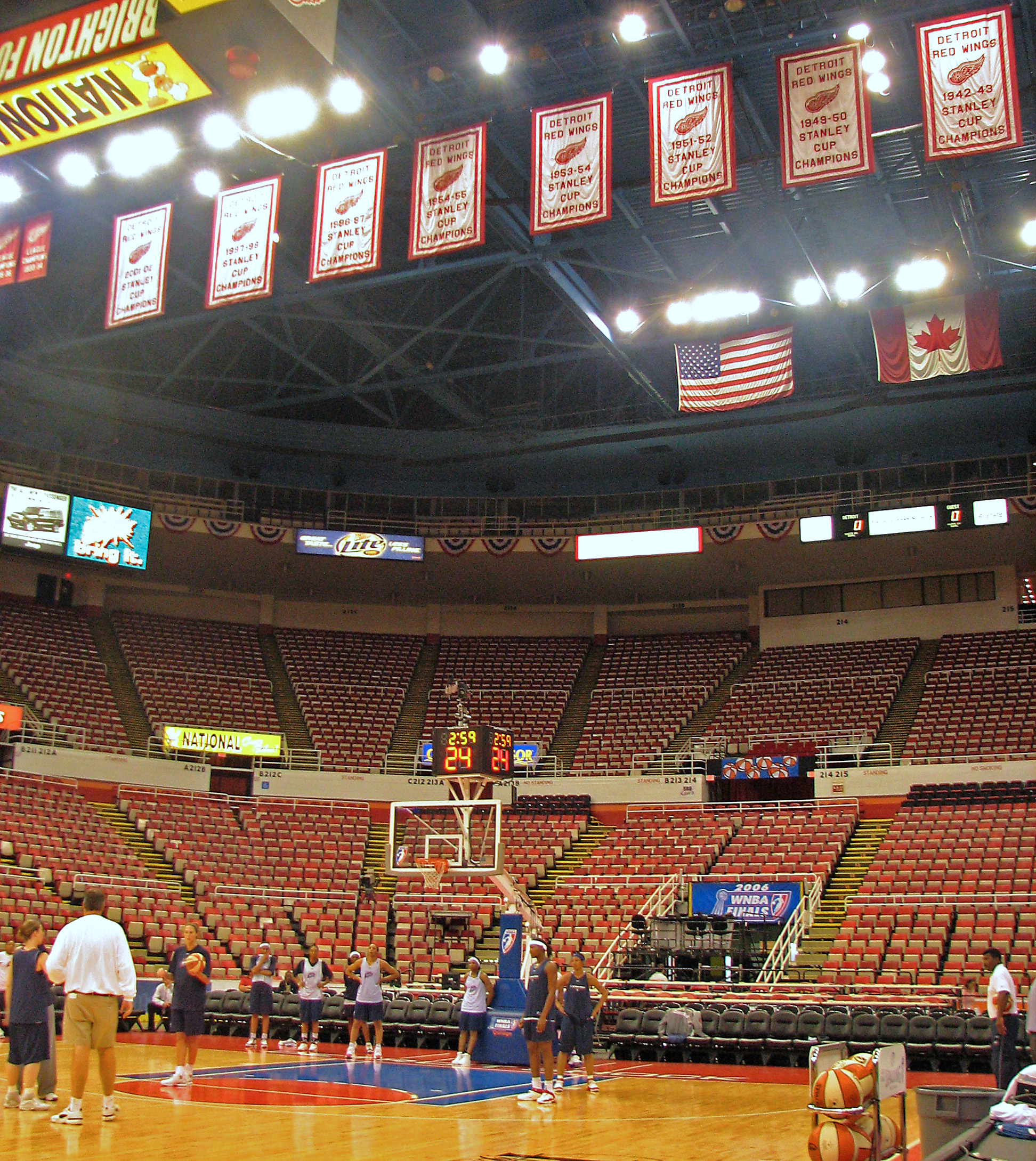 The Detroit Shock practice for Game 5 of the WNBA Finals under the Red Wings' Stanley Cup banners.